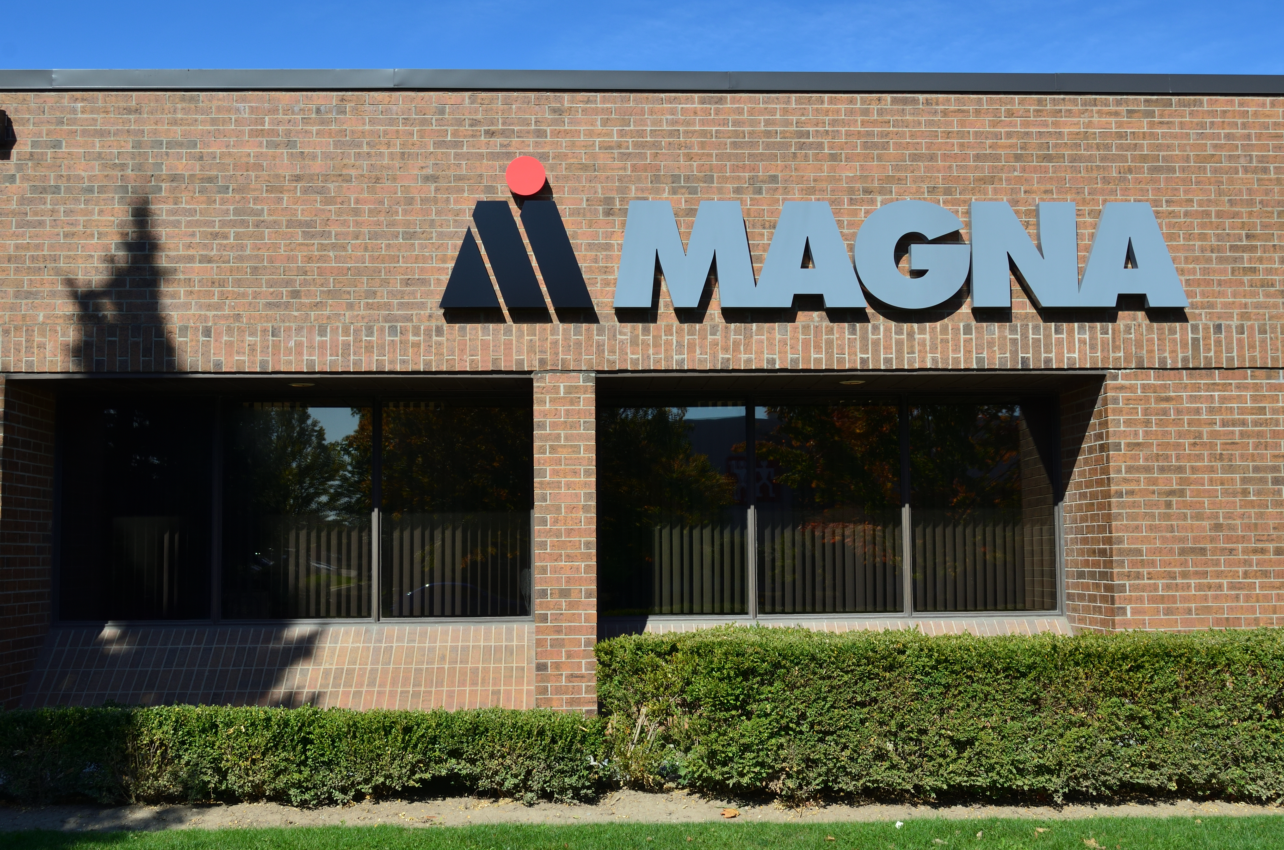 Magna International - Address: 430 Cochrane Drive Markham, Ontario L3R 8E3